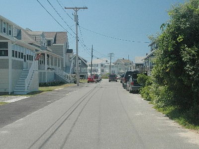 view southwest along Silver Beach Ave, North Famouth, Massachusetts